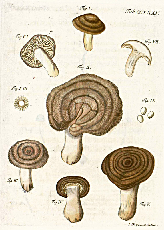 (1771) Fungorum qui in Bavaria et Palatinatu circa Ratisbonam nascuntur icones; Tomus tertius (Ratisbonae : Typis Keiserianis ed.) Retrieved on January 25, 2013. Explanation of the plates by the author Schäffer (in the original spelling) Erklärung der 235. Kupfertafel Der 123. Blätterschwamm Es ist solcher ein zwei- oder dreifarbiger, voller, fleischige, abänderlicher Milchschwamm; mit einem anfangs kugelrundem, nachhero glockigen, und endlich flachen Hute; mit einem meist runden, gerade oder gebogenen Stiele; ohne Saamendecke und Ring; auch ohne Namen in Bayern. Fig. I Ein entwickelter Schwamm; mit glockigem Hute. Fig. II Ein entwickelter Schwamm; mit aufgerol(l)tem Hute. Fig. III Ein entwickelter Schwamm; mit flachem Hute. Fig. IV. Ein entwickelter Schwamm; mit kugelrundem Hute. Fig. V. Ein von Wasser starck angesaugter Schwamm, und von dunkler Farbe. Fig. VI. Ein Schwamm nach seiner Unterfläche; wo a. die Milchtropfen. Fig. VII Ein senkrecht zerschnittner Schwamm. Fig. VIII. IX. Der natürliche und vergrößerte Saamenstaub. Translation Explanation of the 235th copperplate engraving The 123rd agaric It is a two- or three-colored, full, fleshy, variable milk-cap, with an initially spherical, later campanulate and finally plane cap, with a mostly cylindric or curved stem, without "semen cover" (=velum?) and ring, even without a name in Bavaria. Fig. I. developed a fruiting body, with campanulate cap. Fig. II. A developed fruiting body, with decurved cap. Fig. III. A developed fruiting body, flat cap. Fig. IV. developed a fruiting body, with a globated hat. Fig. V. A strong full of water sucked fruiting body, with dark colors. Fig. VI. Underside of a fruiting body; a. = a drop of milk. Fig. VII. A vertical cut-up fruiting body . Fig. VIII IX. The natural spore deposit and enlarged spores.